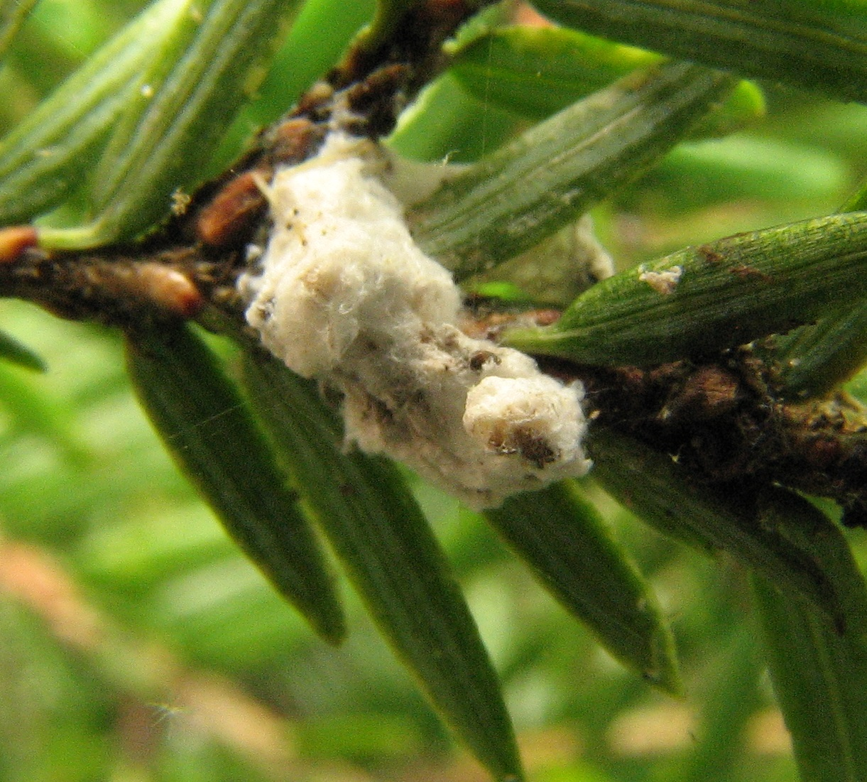 Hemlock wooly adelgid from Tennessee - Adelges tsugae. Bays Mountain Park, Sullivan County, Tennessee, USA.